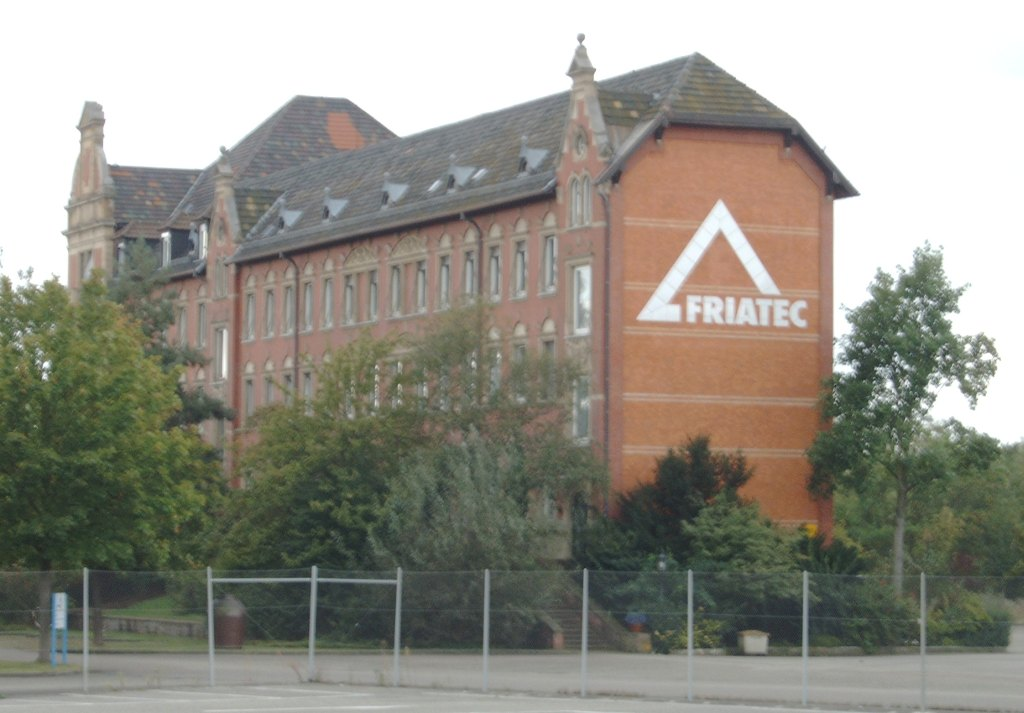 Friatec company: old house